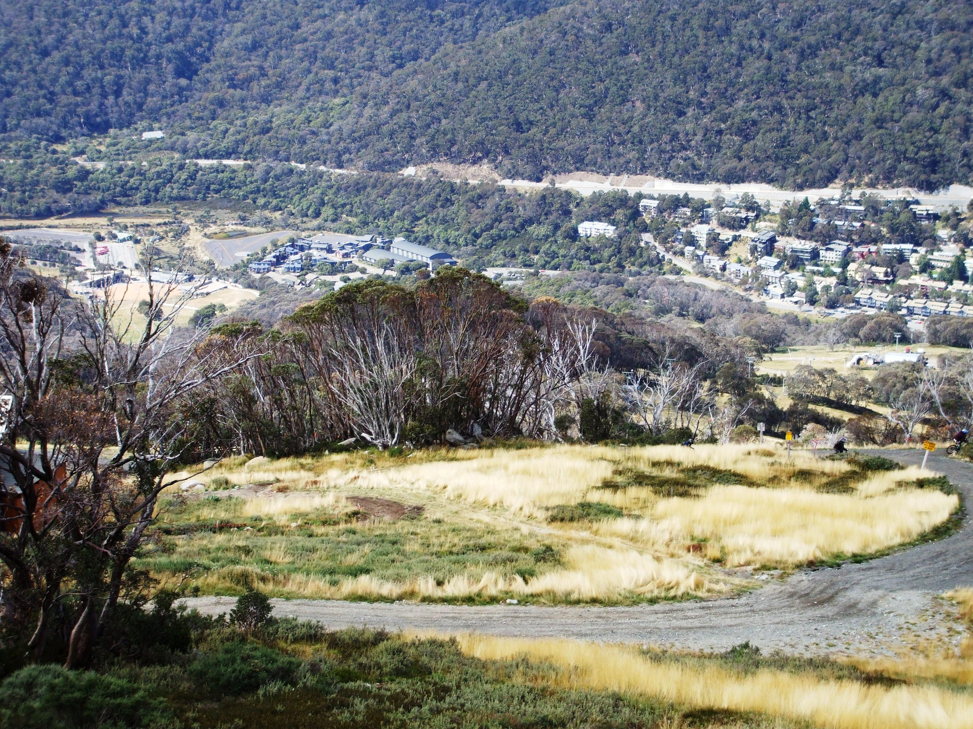 Thredbo from Mount Koscisuko, Australia.